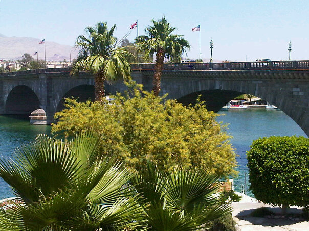 View of London Bridge, Lake Havasu City, Arizona